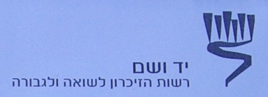 Jerusalem, Yad Vashem, 70 years later